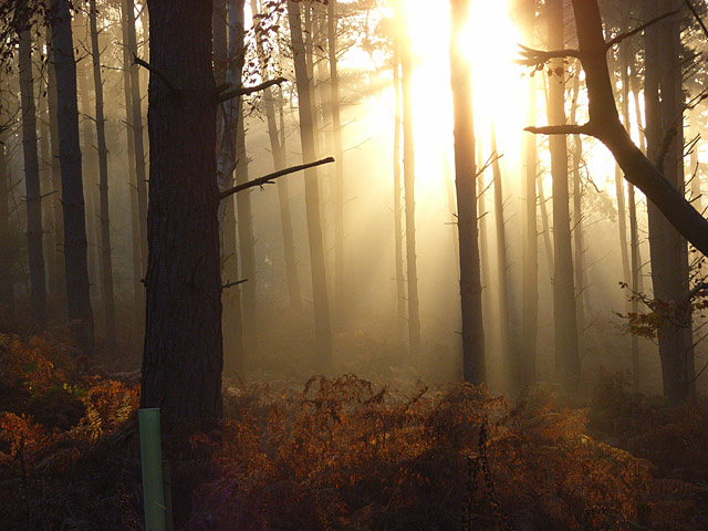 Woodland near to Farley Hill, Wokingham, Great Britain - Mostly pine trees in woods beside Church Road to the west of the village centre.